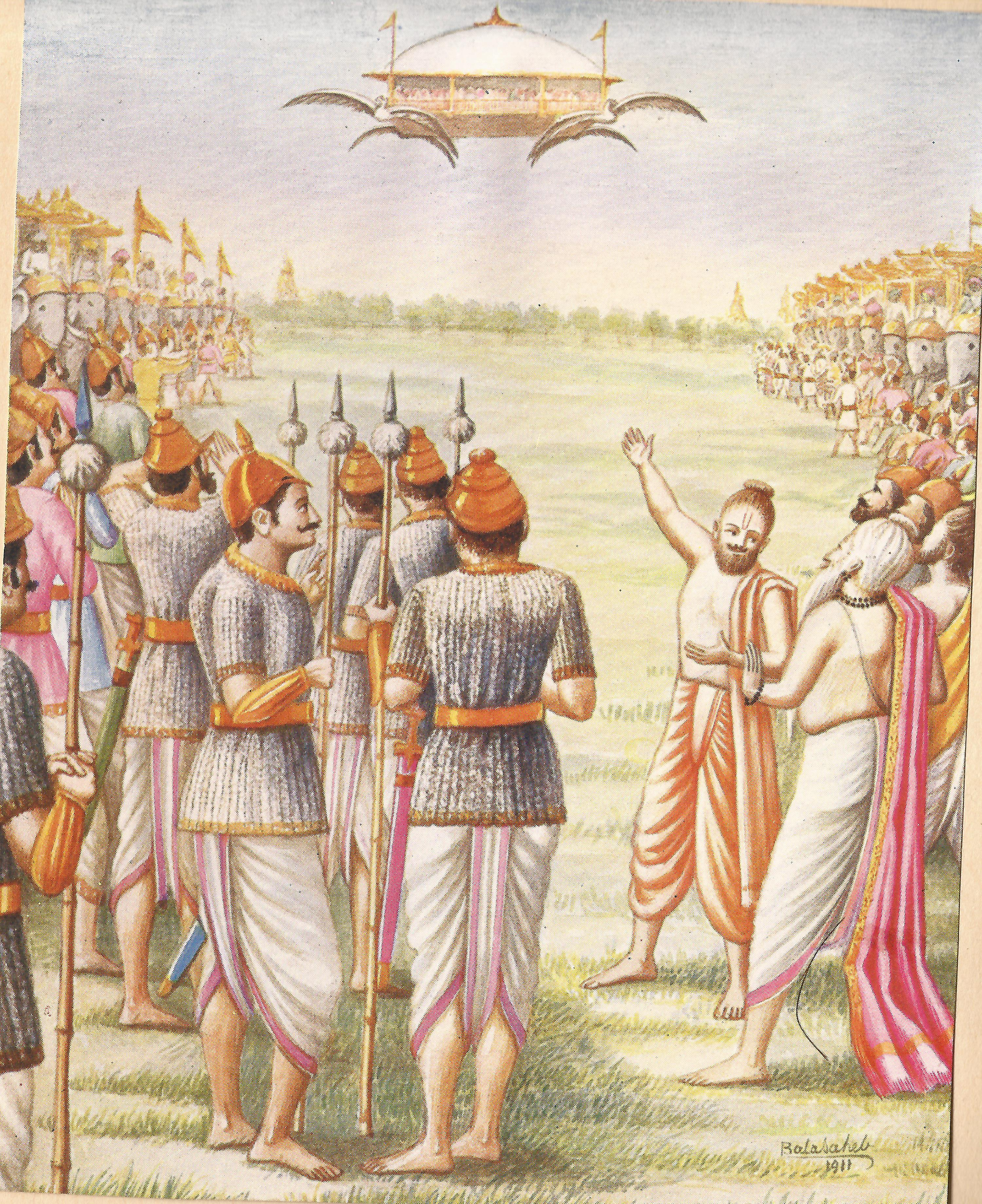 The Pushpak Aircraft 1916 by Balasaheb Pandit Pant Pratinidhi Source: Chitra Ramayana by Ramachandra Madhwa Mahishi, Illustrated by Balasaheb Pandit Pant Pratinidhi